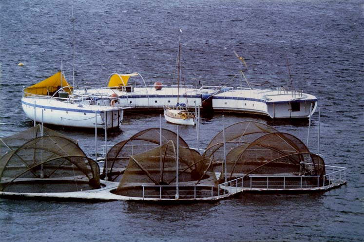 Atoll floating laboratory photo Uwe Kils